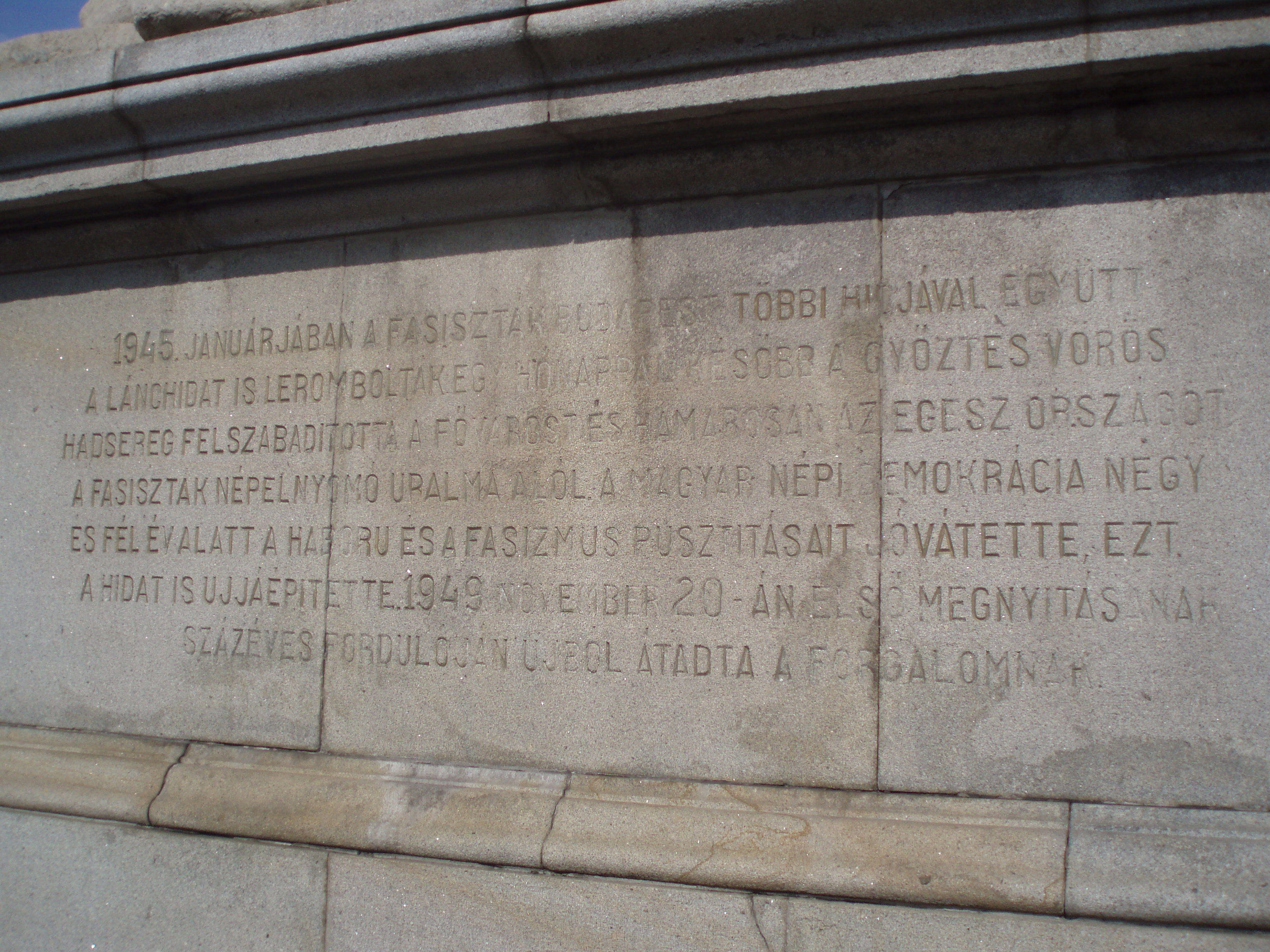 Inscription in Hungarian on the pedestal of the northern stone lion sculpture at the Pest bridgehead of the Lánchíd. It translates to English as: “In January, 1945, the Fascists – together with the other bridges of Budapest – destroyed the Chain Bridge as well. A month later, the victorious Red Army liberated the capital and shortly the whole country of the people-oppressing rule of the Fascists. The Hungarian people's democracy in four and a half years made good the devastation of the war and Fascism, and rebuilt this bridge as well. On 20 November 1949, on the centenary of its first opening it was reopened to the traffic.”